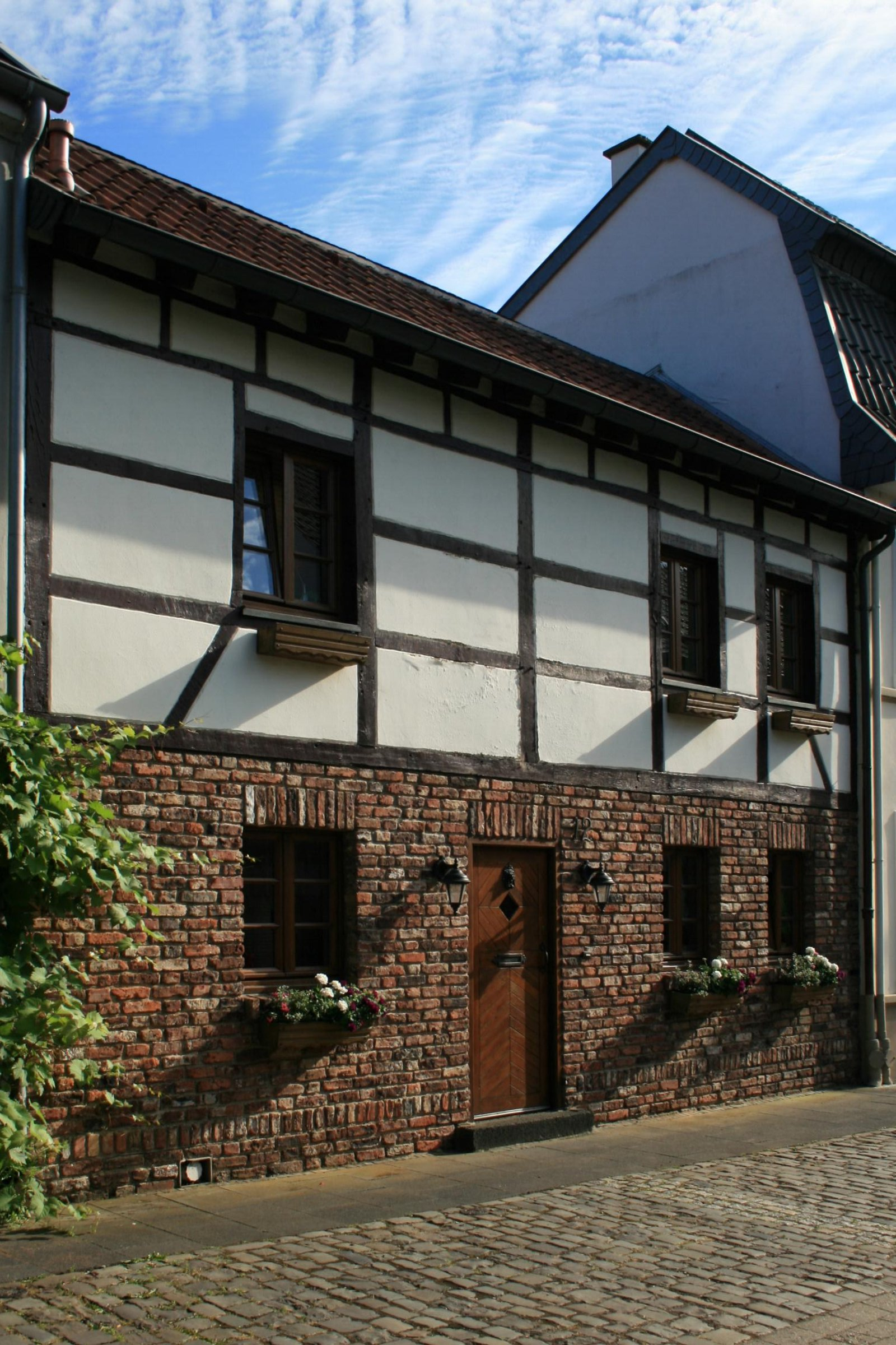 Cultural heritage monument No. St 015 in Mönchengladbach